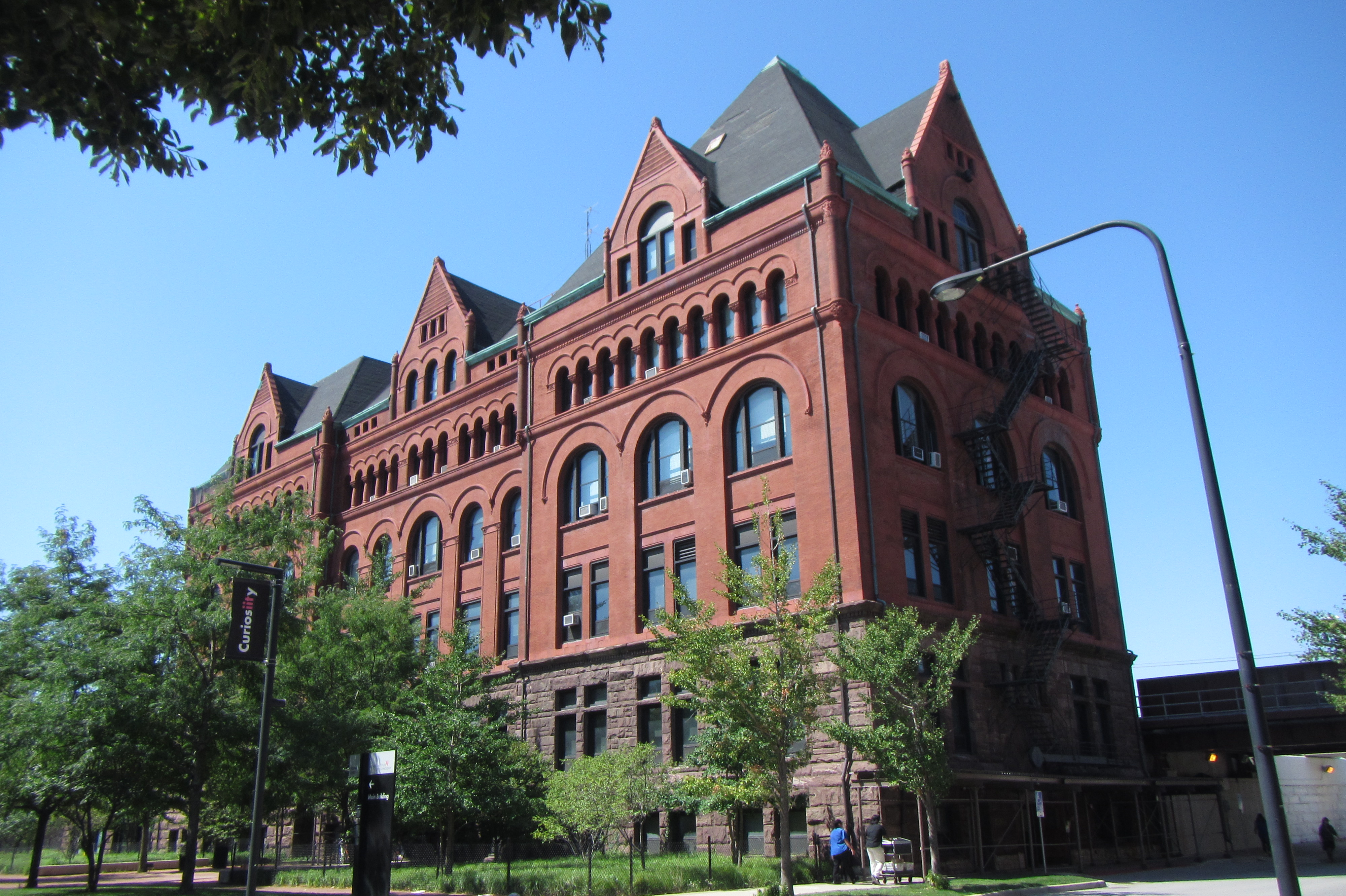 The IIT Main Building located in 3300 S Federal Street